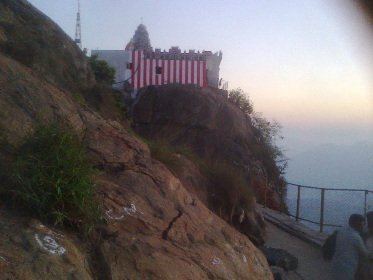 பர்வத மலை, மல்லிகார்சுனர் கோயில்